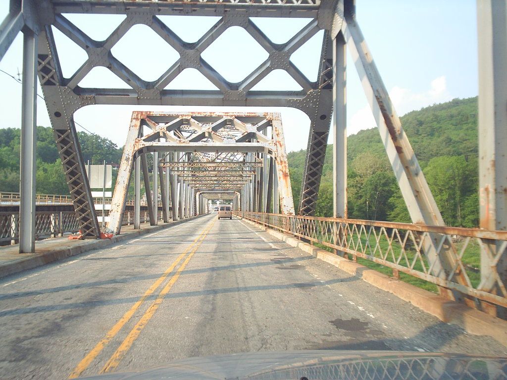 View from a car of the fourth span of the Barryville–Shohola Bridge.